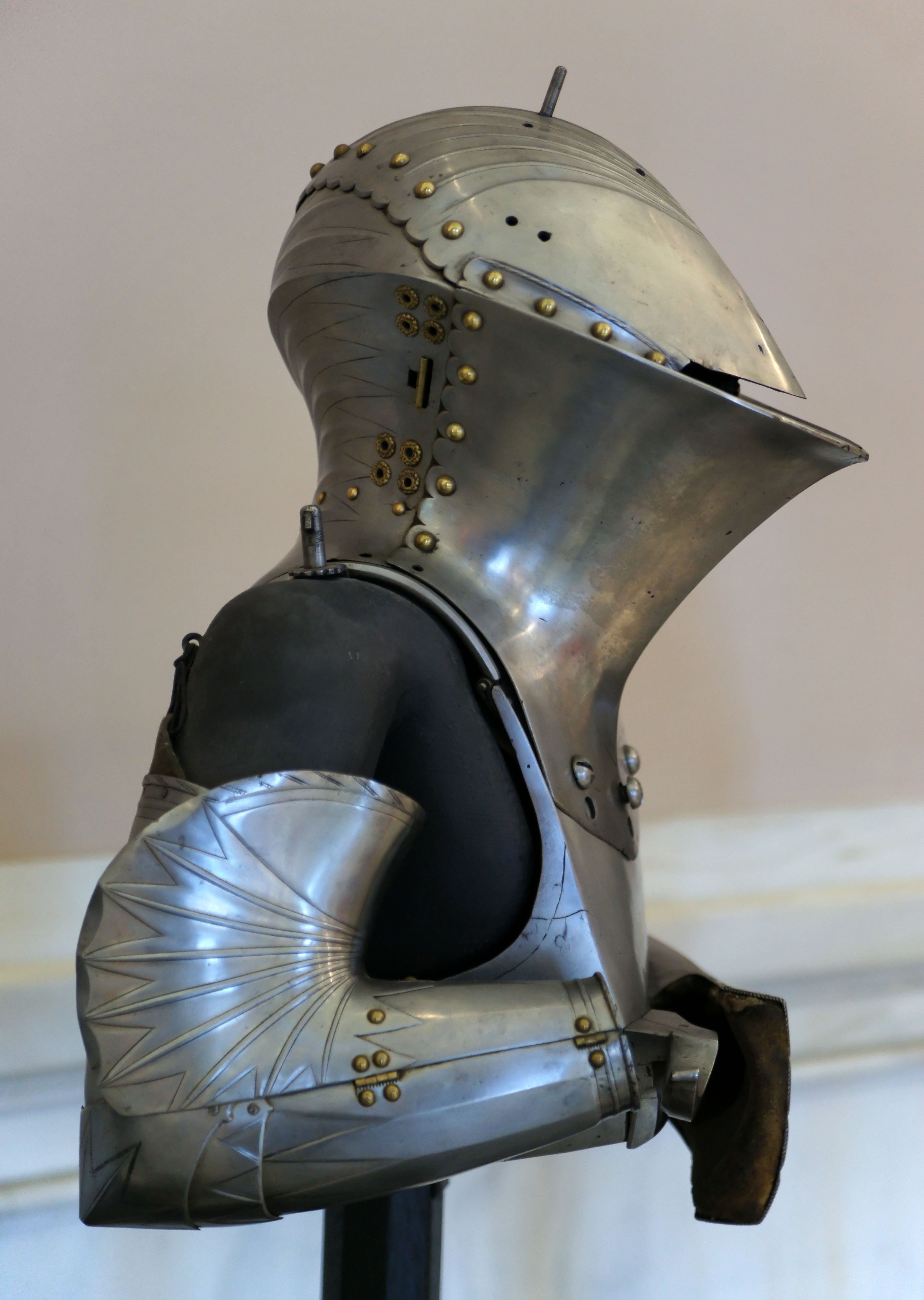 Jousting armor commissioned by Maximilian I in 1494.